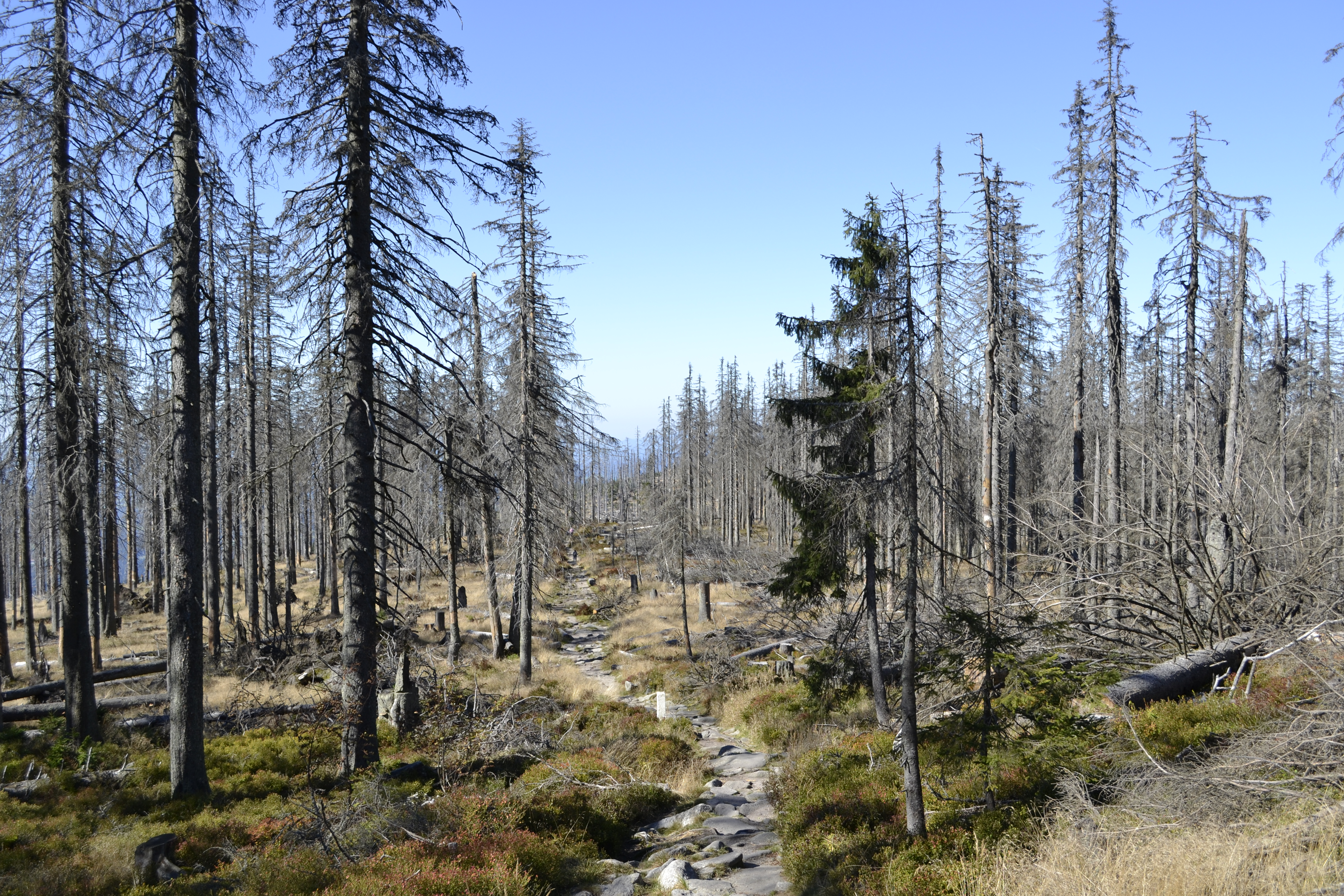 Forest dieback in the Bavaria Forest.